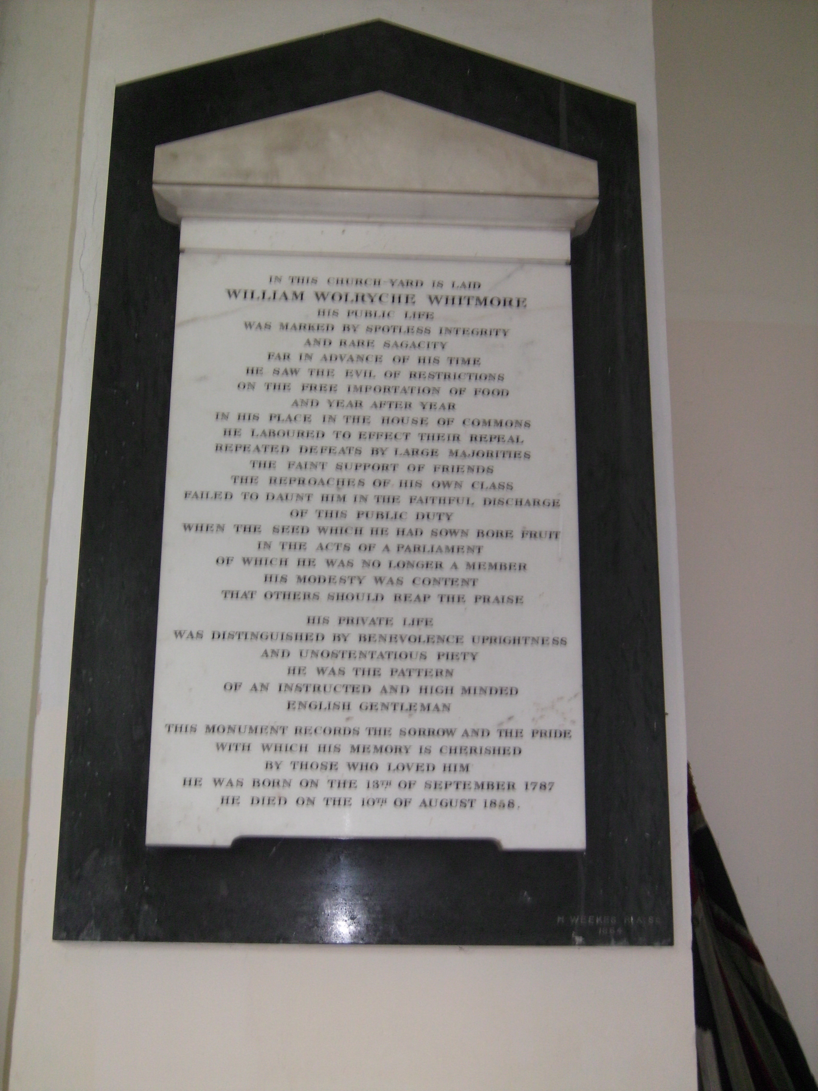 Memorial to William Wolryche-Whitmore (1787-1858), radical Whig politician, anti-Corn Law campaigner, M.P. for Bridgnorth and Wolverhampton, owner of Dudmaston Hall. St. Andrew's church, Quatt.